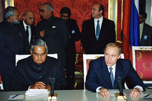 THE GRAND KREMLIN PALACE, MOSCOW. President Vladimir Putin and Indian Prime Minister Atal Bihari Vajpayee addressing a news conference. In the background left: Narendra Modi.